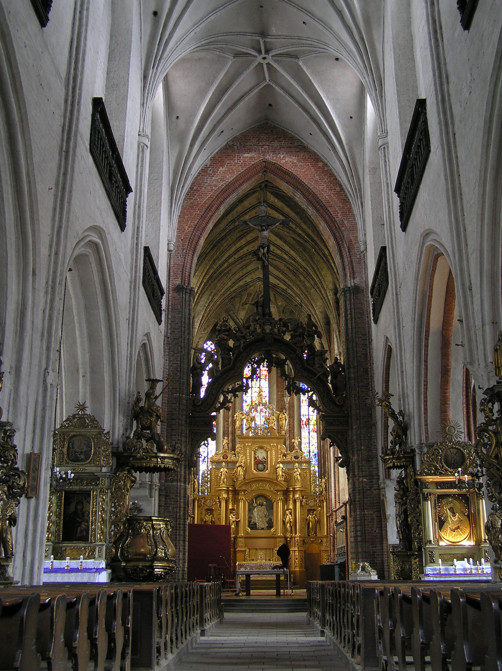 Toruń, St. James church, interior looking east.